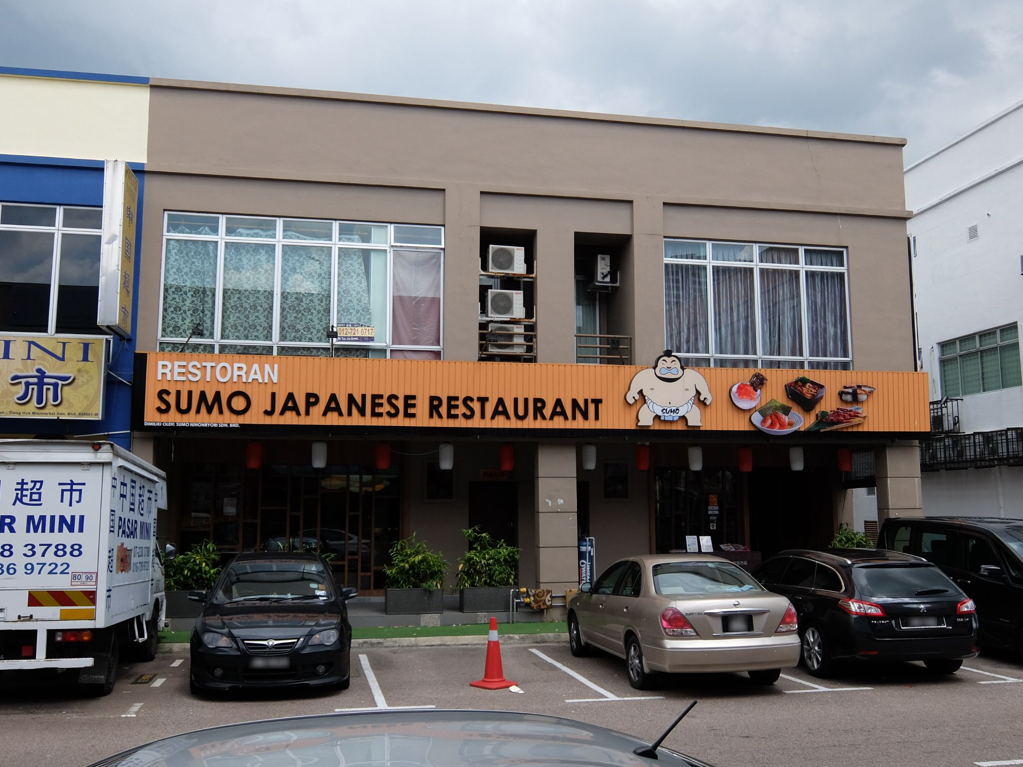 Sumo Japanese Restaurant, Taman Nusa Bestari, Skudai, Iskandar Puteri, Johor, Malaysia